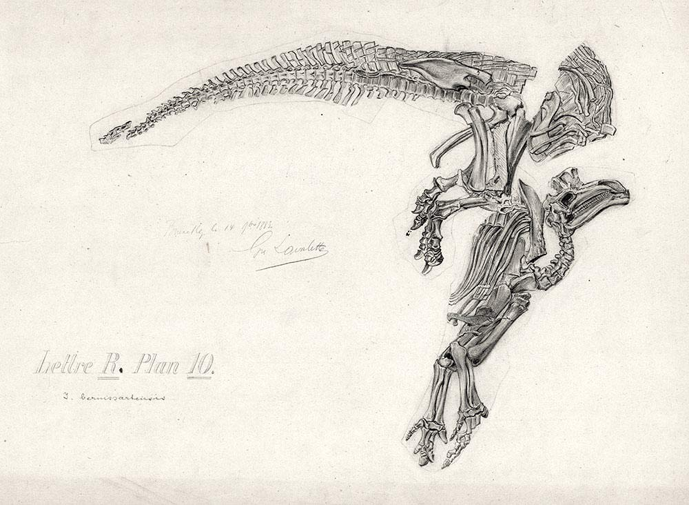 Iguanodon bernissartensis fossil drawn as it was found in Bernissart.